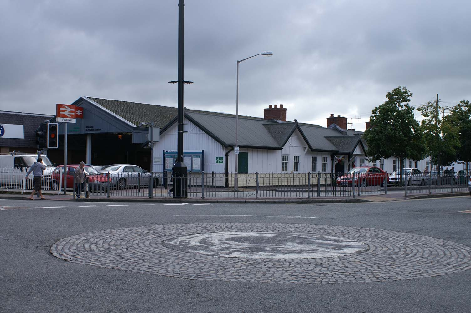 The exterior of Pwllheli railway station